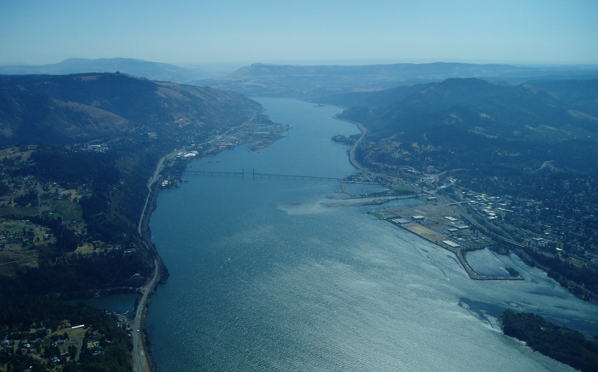 Aerial shot of Hood River, Oregon and the Columbia River